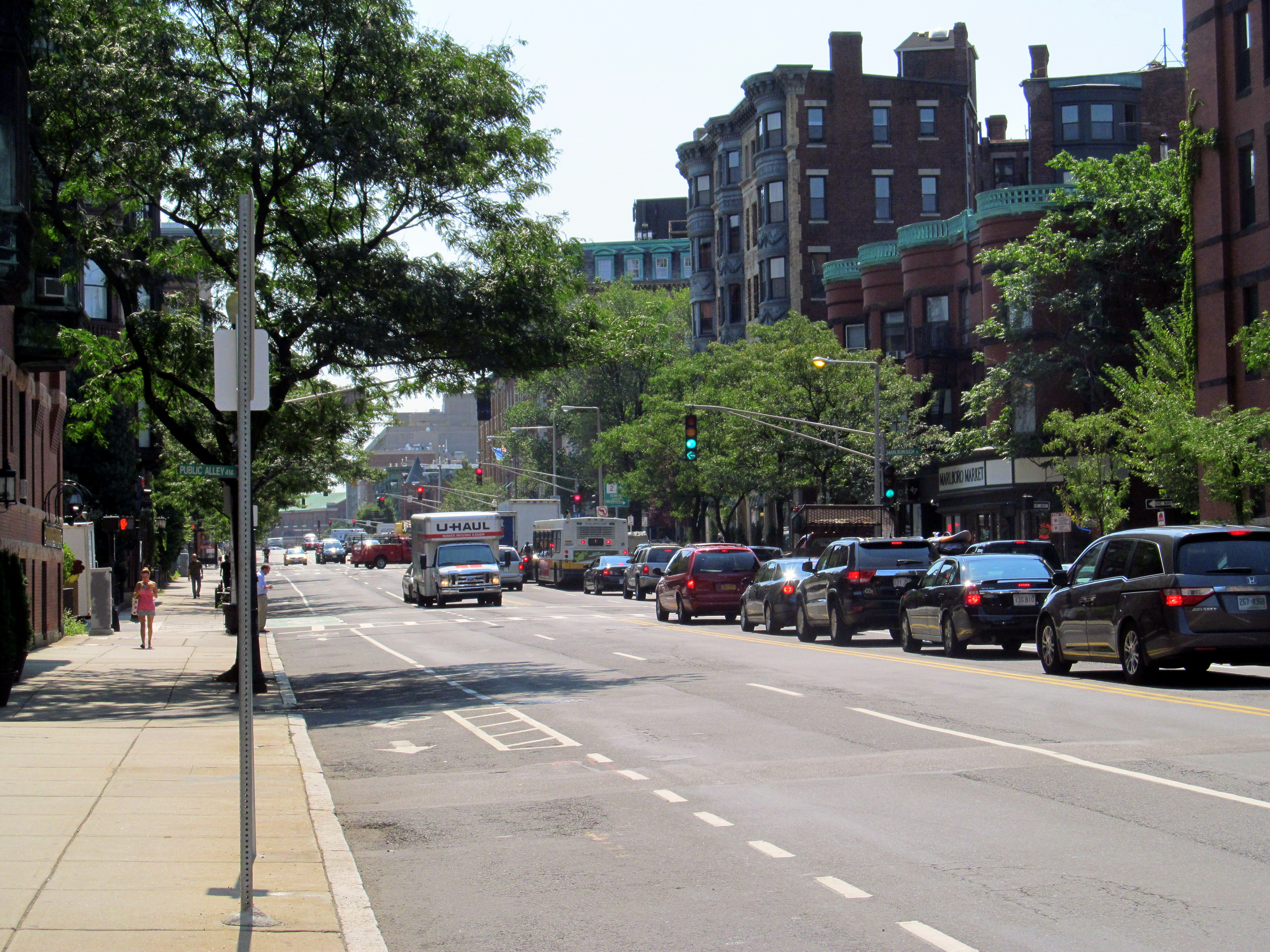 Looking south on Massachusetts Avenue from Beacon Street towards Marlborough Street